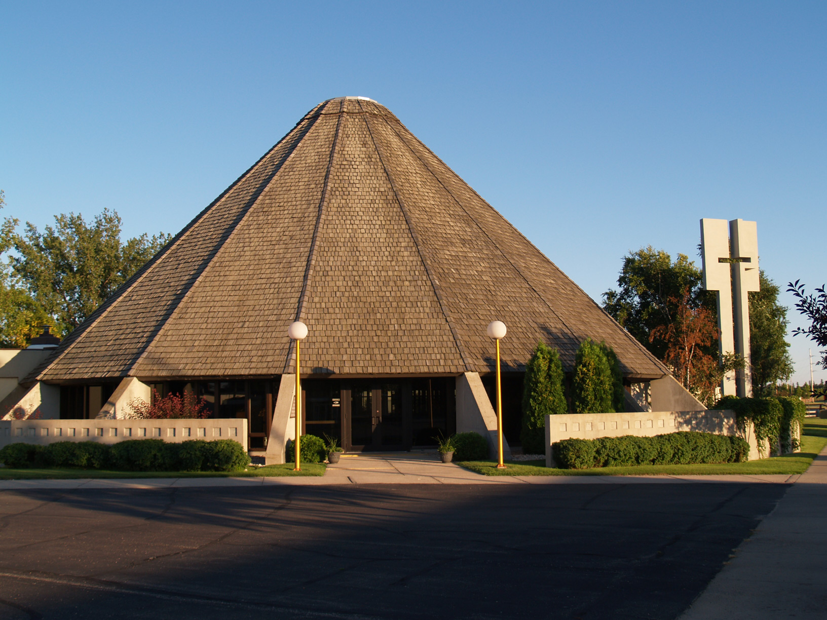 United Methodist Church, downtown Thief River Falls, Minnesota, USA